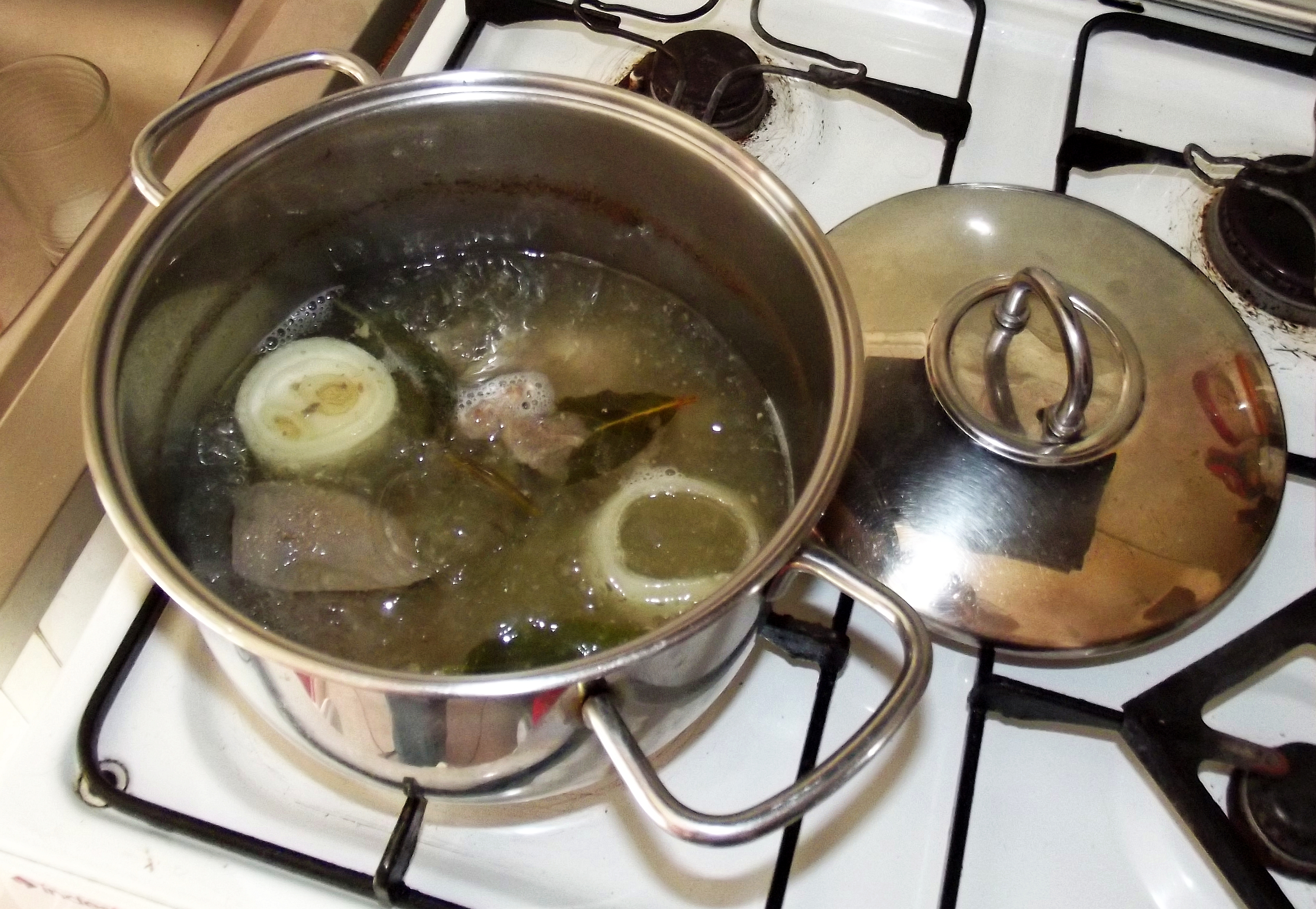 Beef head boiling broth